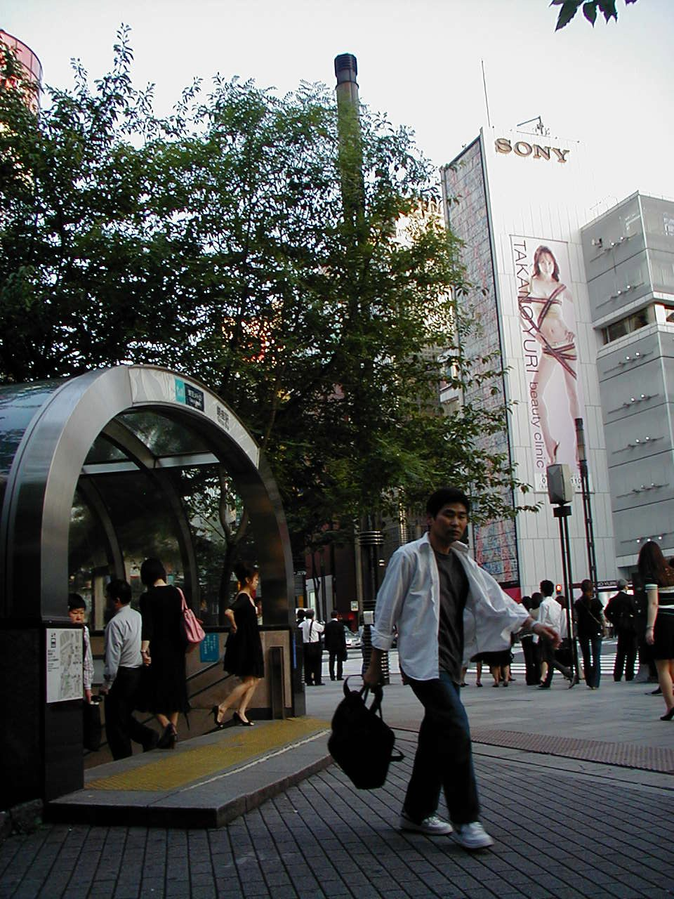 Entry stair to Ginza Metro station in Tokyo at northwest point of Sukiyabashi intersection; Sony Building is visible in background